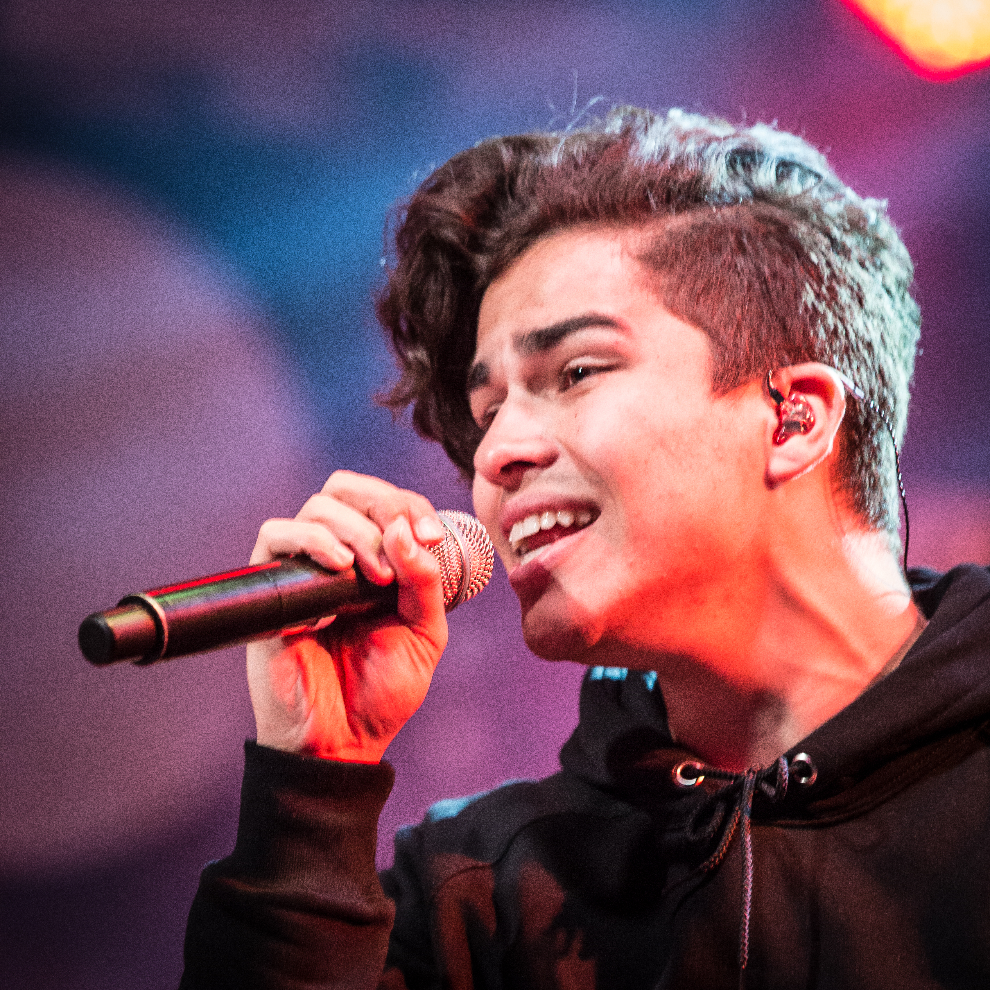 Samoan-American singer Alex Aiono at the SWR3 New Pop Festival 2017